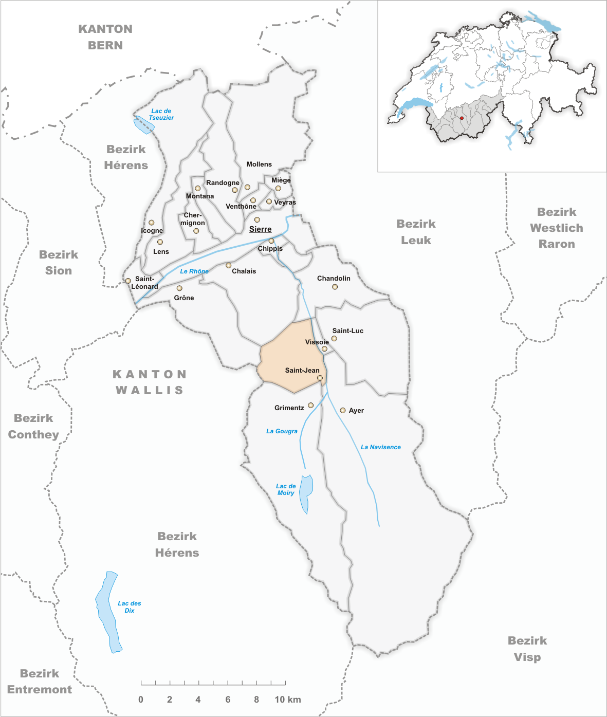 Municipality Saint-Jean